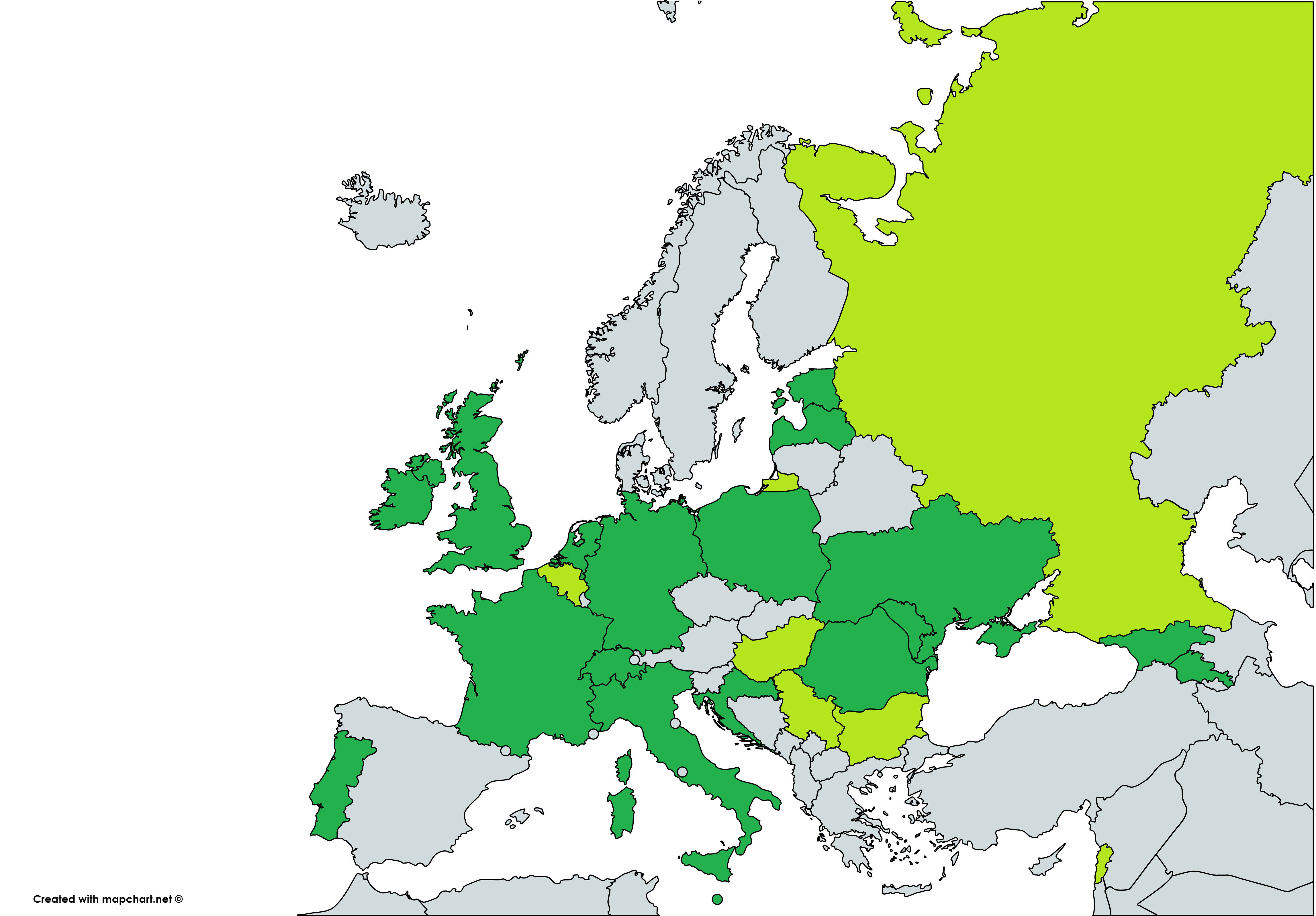 A new version of the map made for me